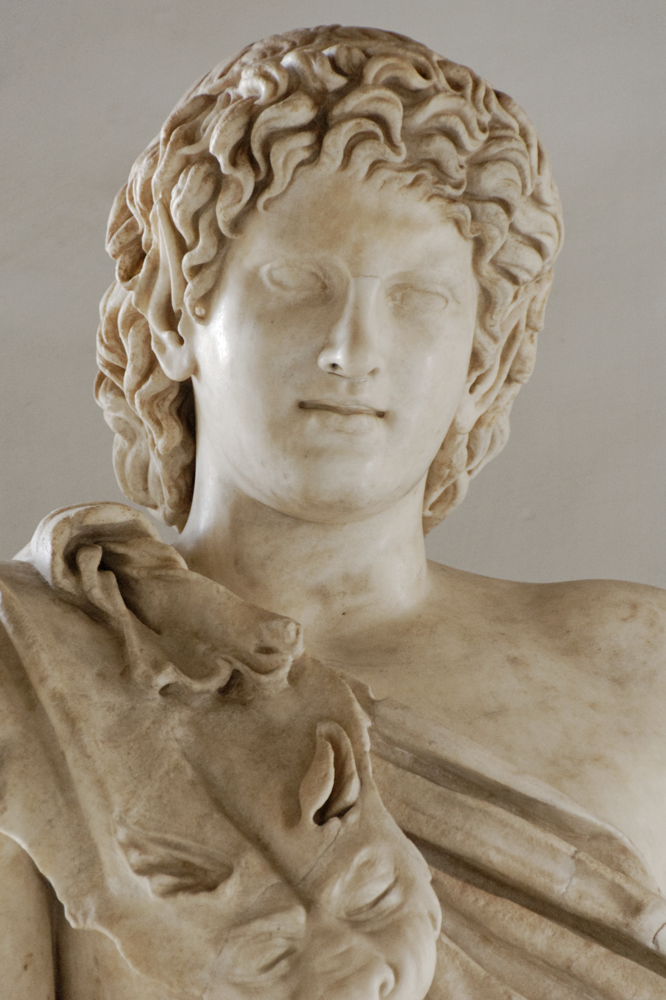 Satyr leaning on a tree trunk. Roman copy of the Imperial era after a Greek original of the Late Classicism; restored in 1999. Dating from ca. 130 AD (copy); 4th century BC (original by Praxiteles).